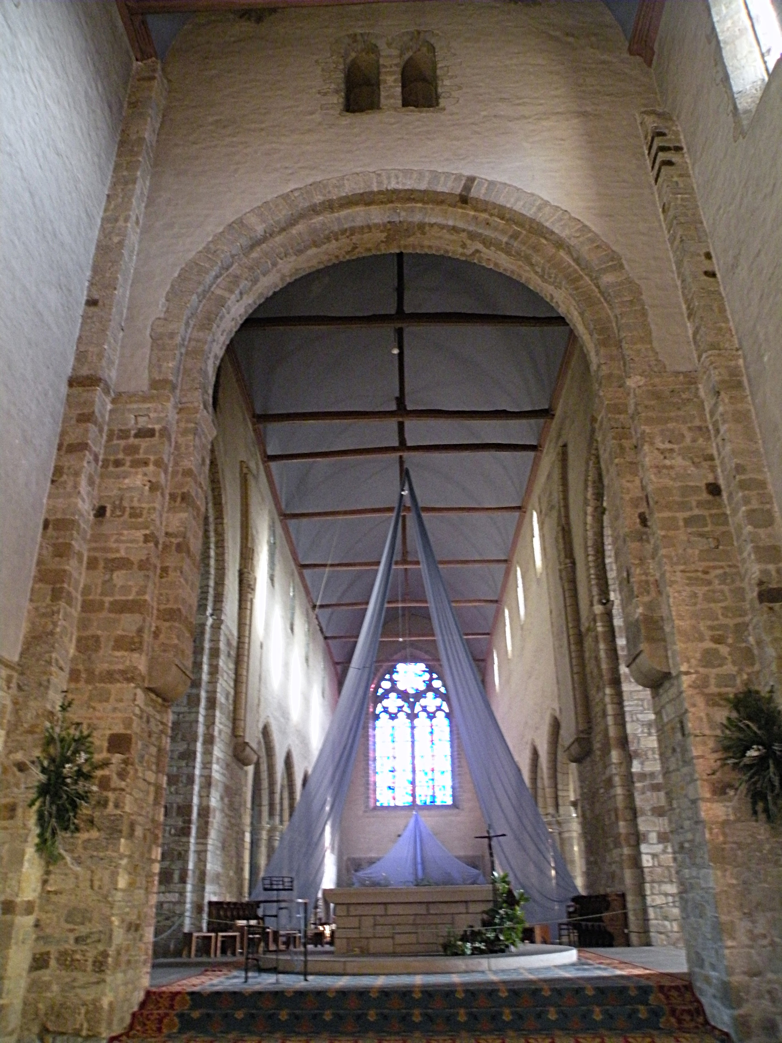 Choir of Notre-Dame-en-Saint-Melaine church in Rennes.